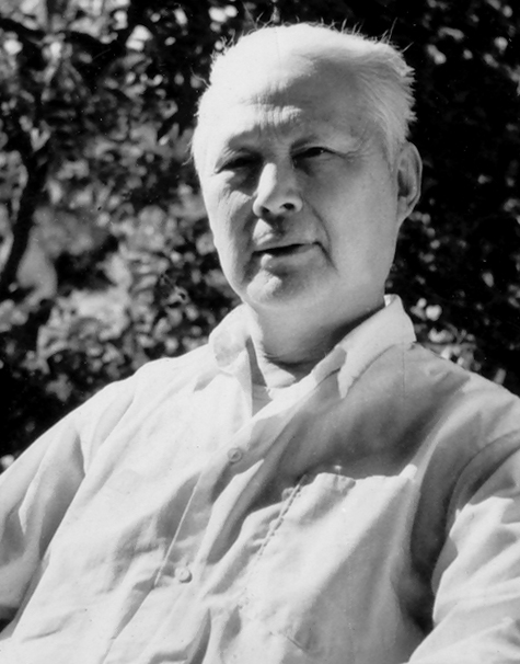 This is my own work, and authorized by the artist.